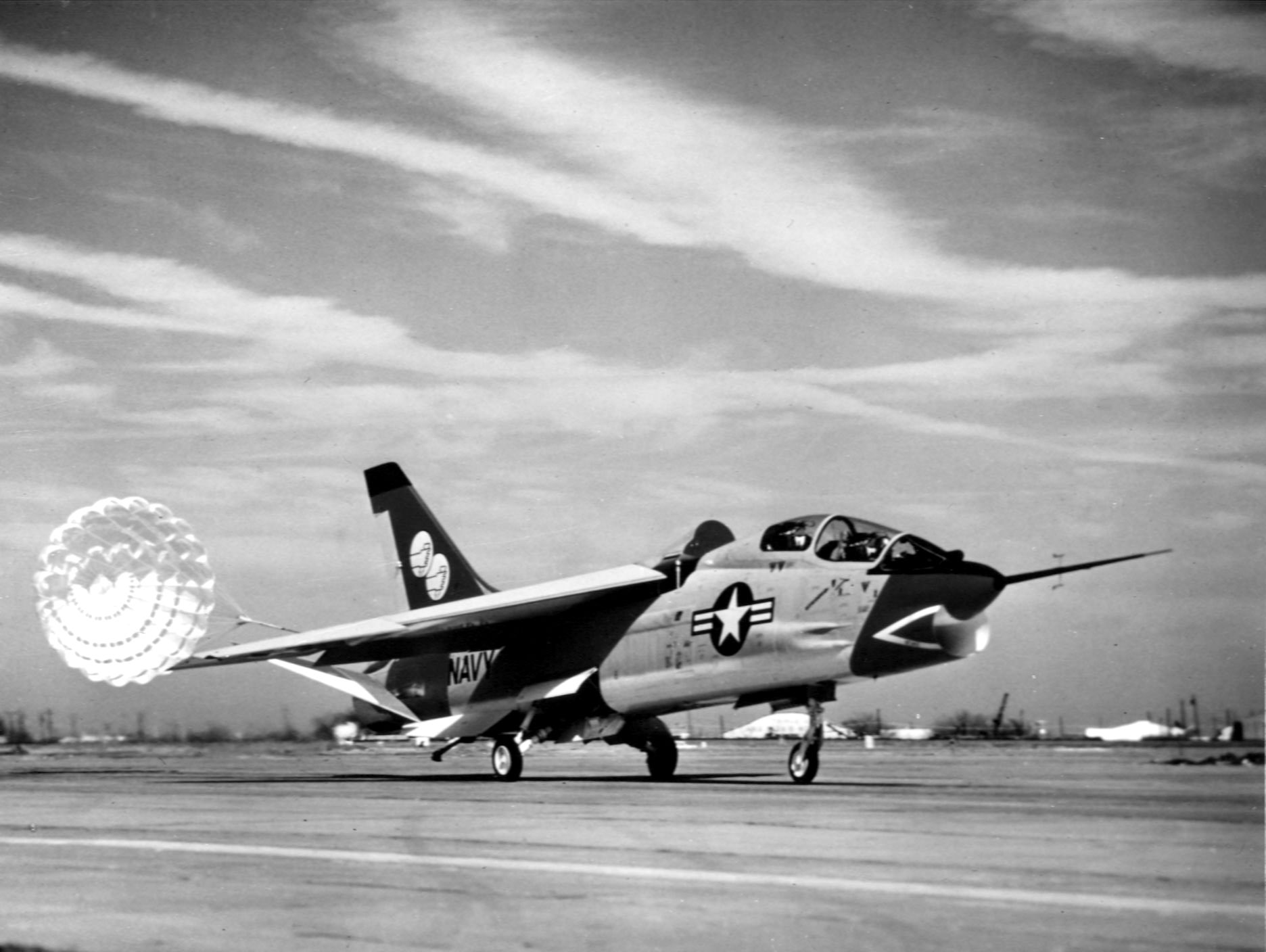 The Vought F8U-1T Crusader (after 1962 TF-8A) returning from its first flight on 6 February 1962 at Dallas, Texas (USA). It was built by modifying the 77th production F8U-1 (F-8A BuNo 143710). This plane had also served as the prototype for the F8U-2NE (F-8E). It finally crashed near Dallas, Texas (USA), on 28 July 1978, after experiencing engine trouble on a training flight for Philippine pilots.